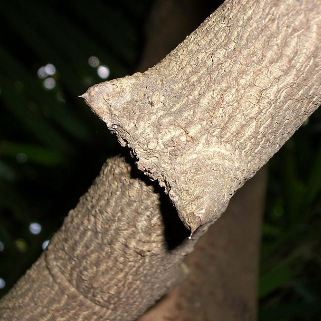 Woody stem of a large Capparis fascicularis var. zeyheri showing paired spines, from Amanzimtoti, KwaZulu-Natal, South Africa.